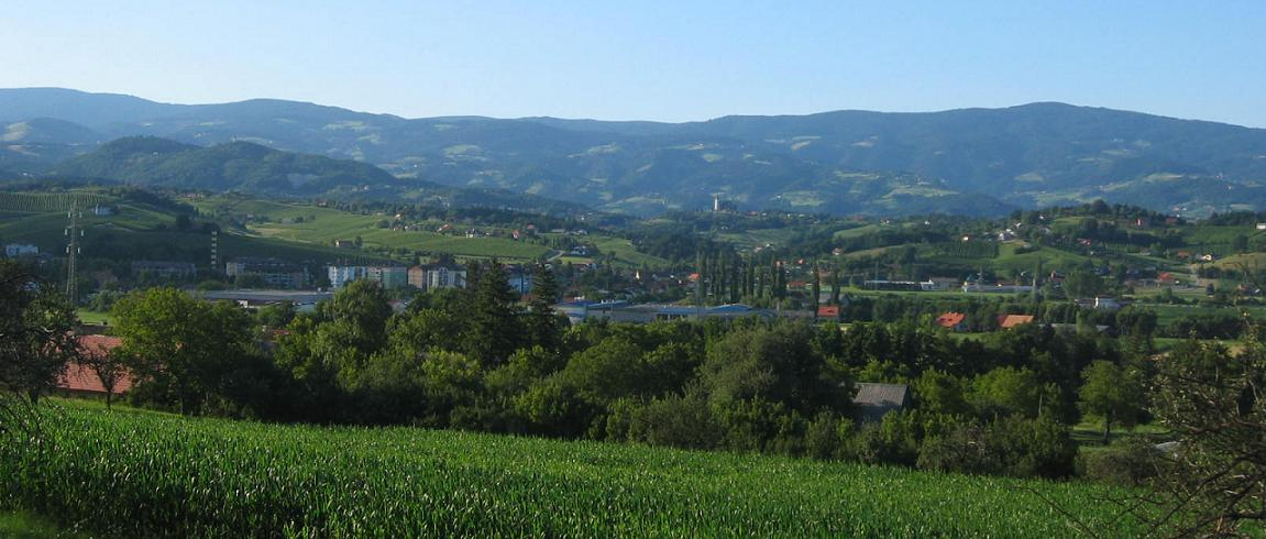 Slovenske Konjice (town with surroundings), Slovenia photo:Ziga 10:37, 13 August 2006 (UTC)